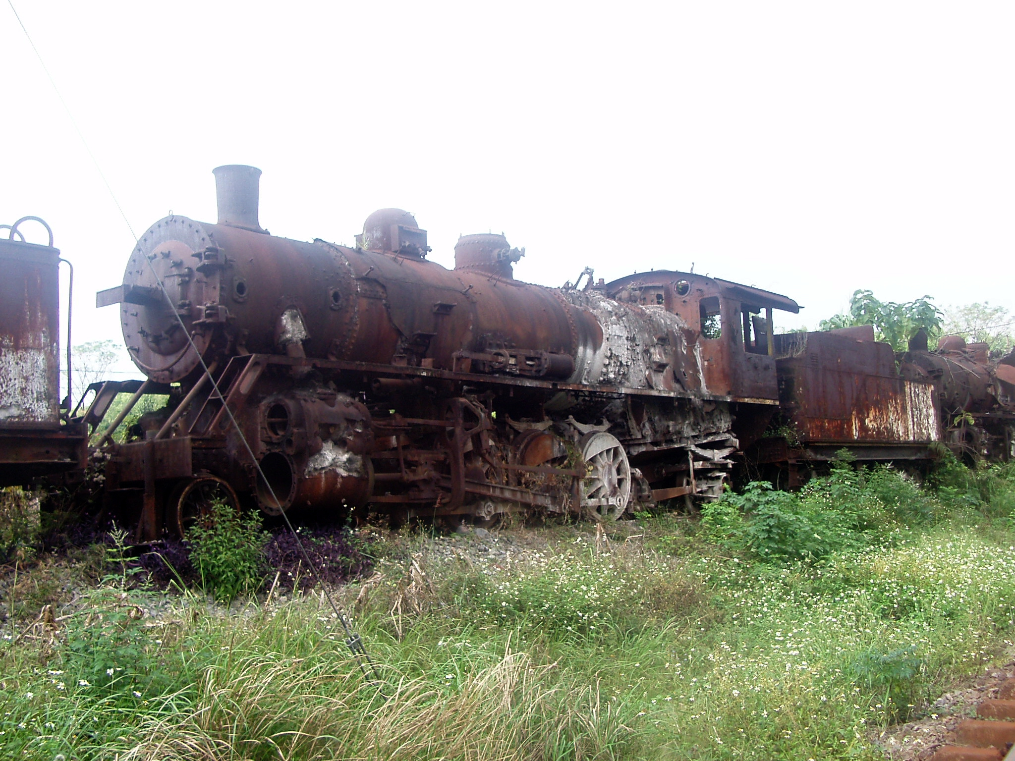 Three JF6 Steam Locomotives in Heshan, Laibin, China.